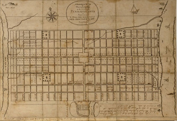 William Penn's plan for Philadelphia